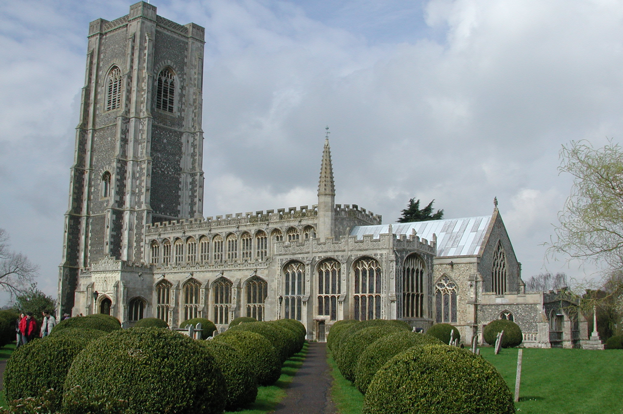 This photograph was taken by Tim Rogers on 26 April 2005. He agrees to licence it under the terms of the GNU Free Documentation License.